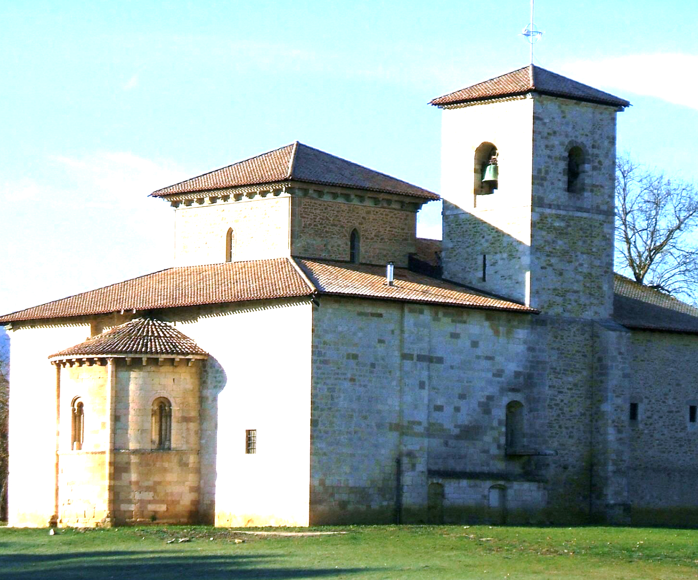 San Prudencio Church, Armentia